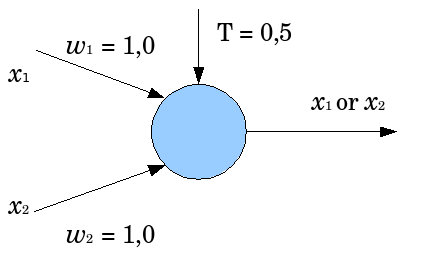 An artificial neuron which represents OR logical function